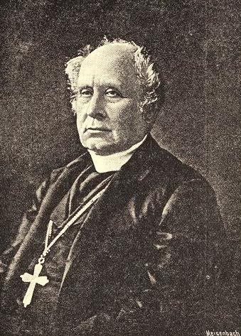 1897 History of St Margaret's Convent Edinburgh and auto biog of Ann Agnes Xavier Trail. Now part of Gillis Centre